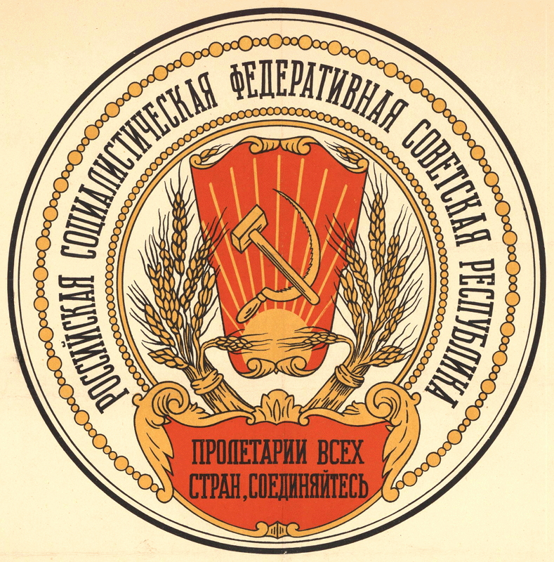 Coat of arms of the Russian Soviet Federative Socialist Republic (RSFSR) (1918-1925), see Герб РСФСР